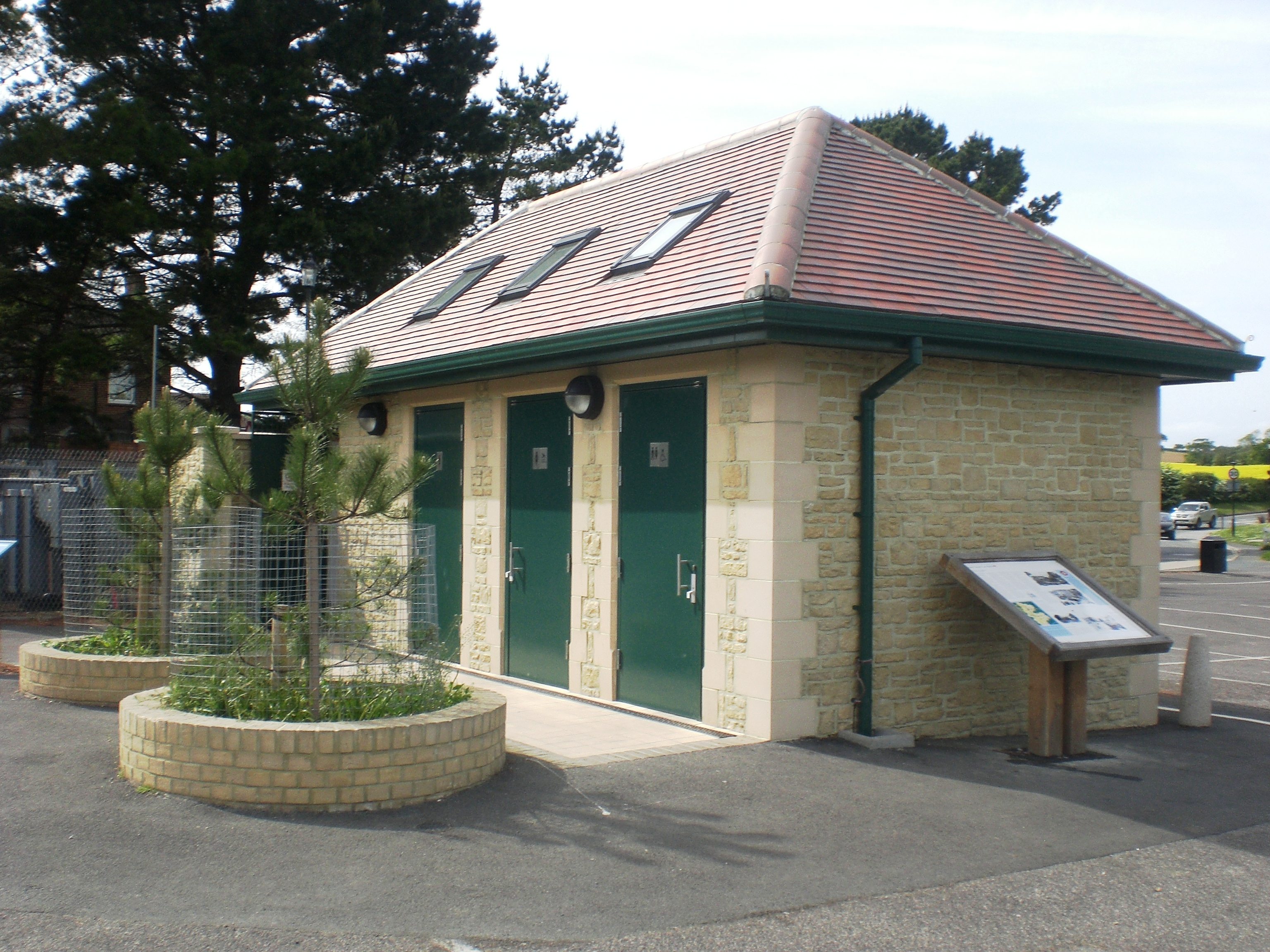 Low carbon-emitting toilets (eco-toilets) in Brading on the Isle of Wight.